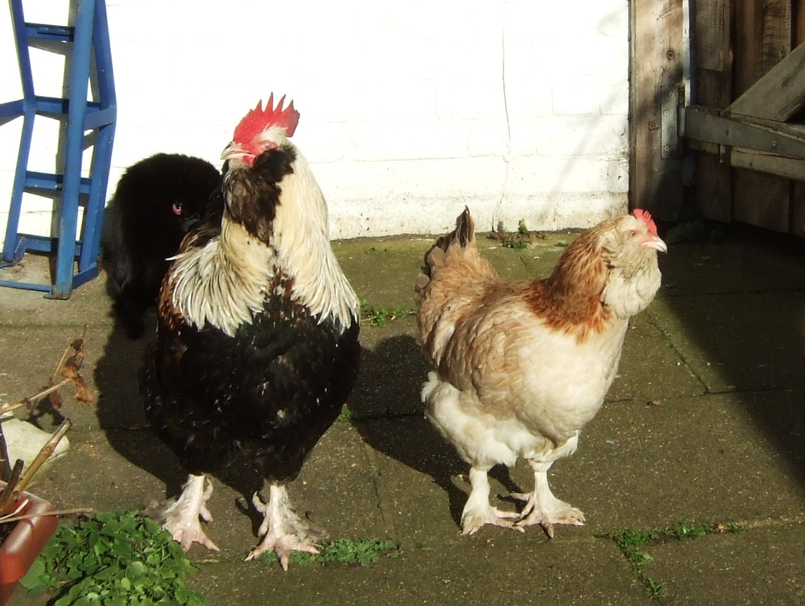 Faverolles cock and hen